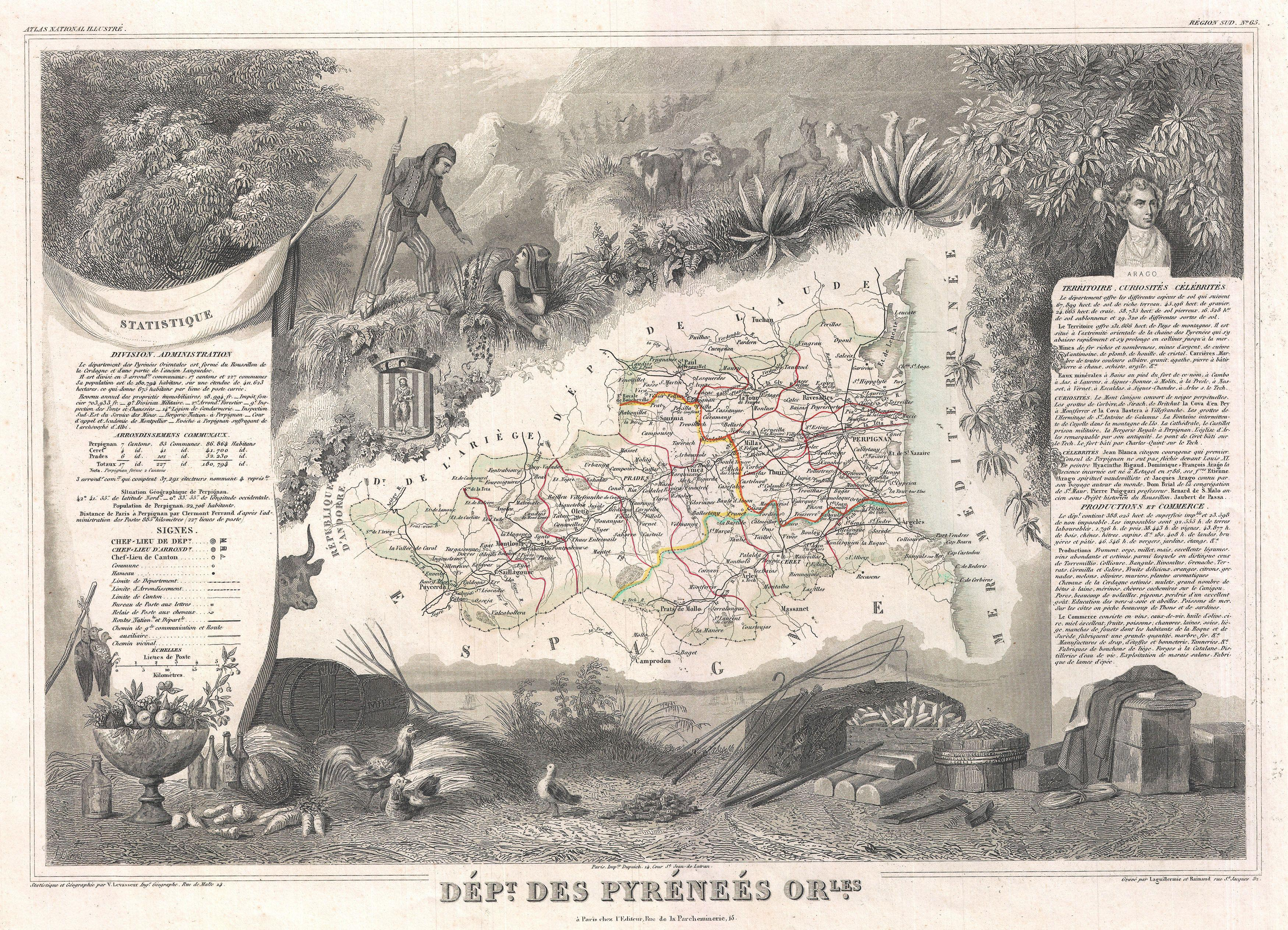 This is a fascinating 1852 map of the French department of Pyrenees Orientales, France. This area is well-known wine producing region. A wide variety of wines come out of this region, including the famous Muscat wine. This wine can be tasted as an aperitif or with dessert. It pairs especially well with Roquefort cheeses. The map proper is surrounded by elaborate decorative engravings designed to illustrate both the natural beauty and trade richness of the land. There is a short textual history of the regions depicted on both the left and right sides of the map. Published by V. Levasseur in the 1852 edition of his Atlas National de la France Illustree.